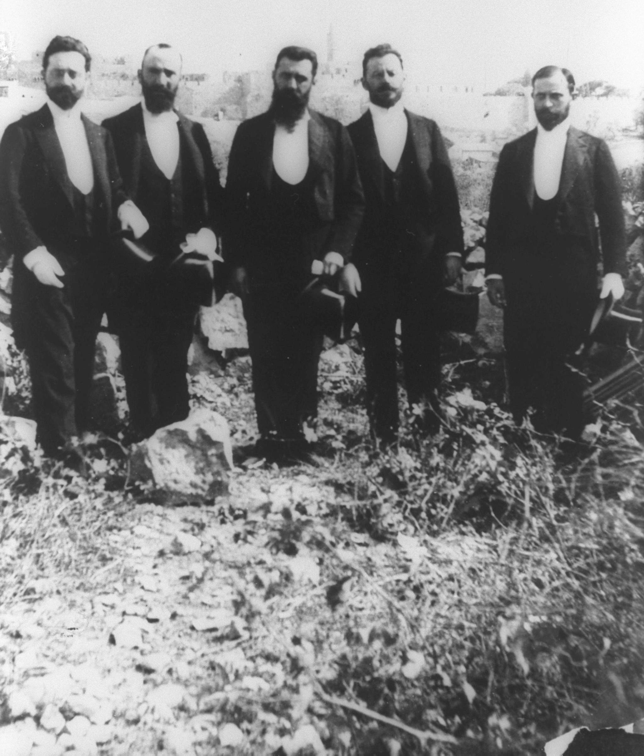 original description: Theodor Herzl (center) with a Zionist delegation in Jerusalem, 1900. (R. to L.) Y. Seidner, M. Schnirer, M. I. Bodenheimer and David Wolffsohn. (correct order R to L: Zeidner, Shnirer, Herzl, Wolffsohn, Bodenheimer)